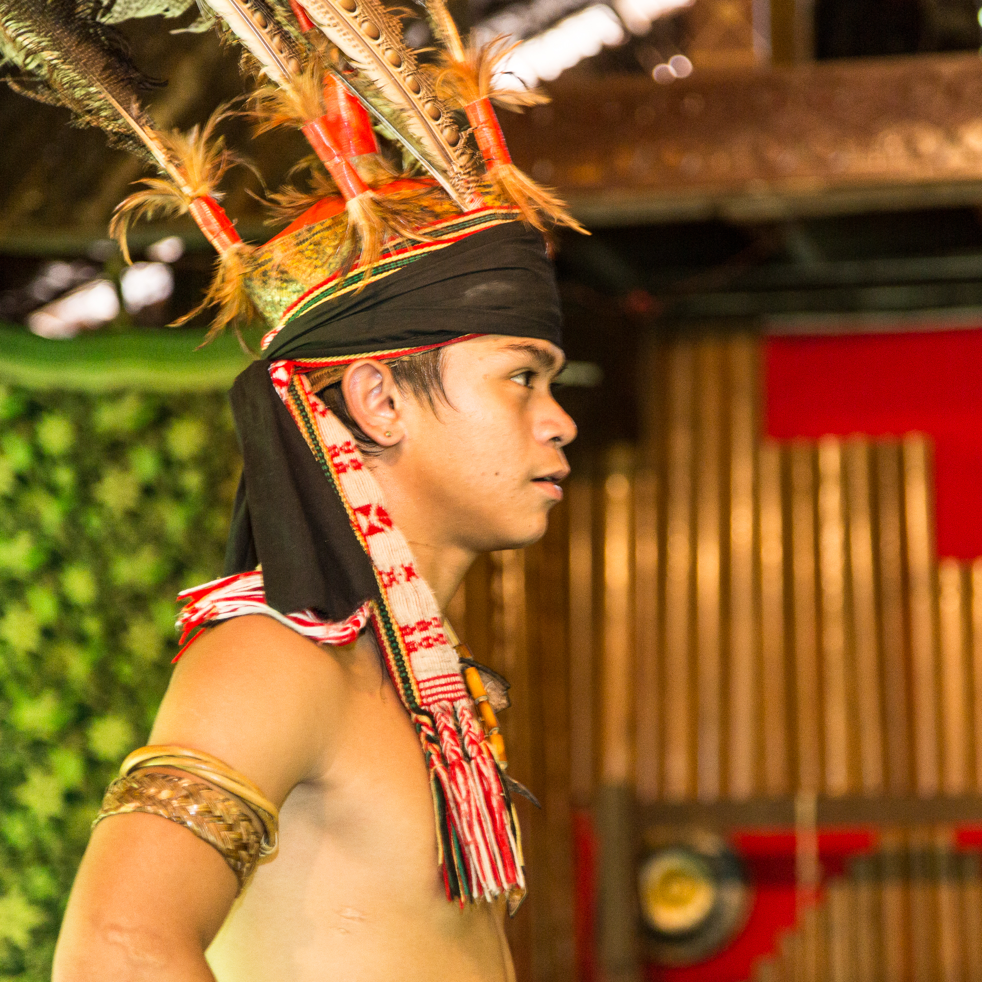 Kg. Kuai Kandazon, Penampang, Sabah: A member of Monsopiad Cultural Village during the performance of traditional danses